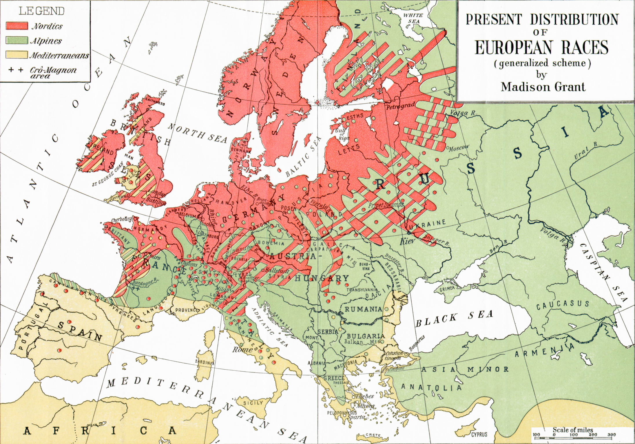 "Present Distribution of the European Races", map from American eugenicist Madison Grant's 1916 book, The Passing of the Great Race. This scan is from a reprint printed in the journal of the American Geographical Society.